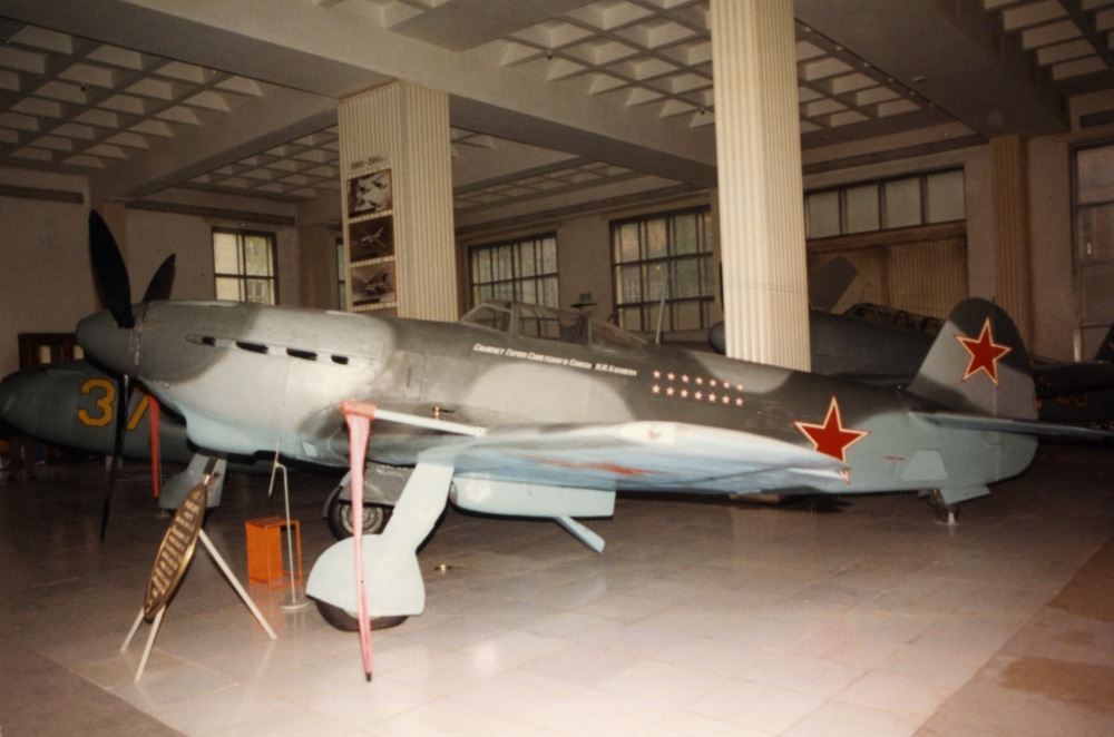 PictionID:42251557 - Title:Yakovlev Yak-9 Yakovlev Yak-9 Yakovlev Museum Moscow Sep93 13 - Catalog:15_003191 - Filename:15_003191.tif - --- Image from the Charles Daniels Photo Collection album "Moscow Air Museums" which contains images Mr. Daniels took while visiting Russia----PLEASE TAG this image with any information you know about it, so that we can permanently store this data with the original image file in our Digital Asset Management System.----SOURCE INSTITUTION: San Diego Air and Space Museum Archive